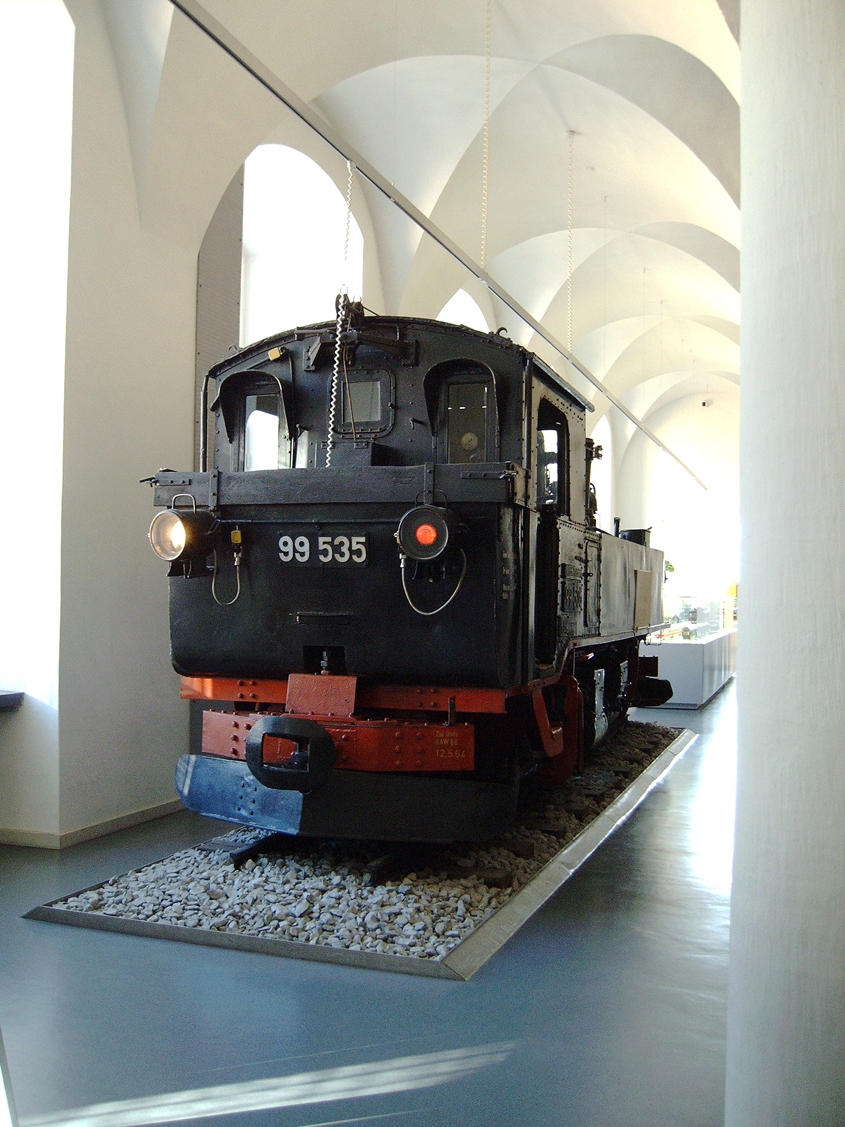 German steam locomotive, DRG Class 99.51-60, ex-Saxon IV K, in the Dresden Transport Museum, Saxony, Germany.